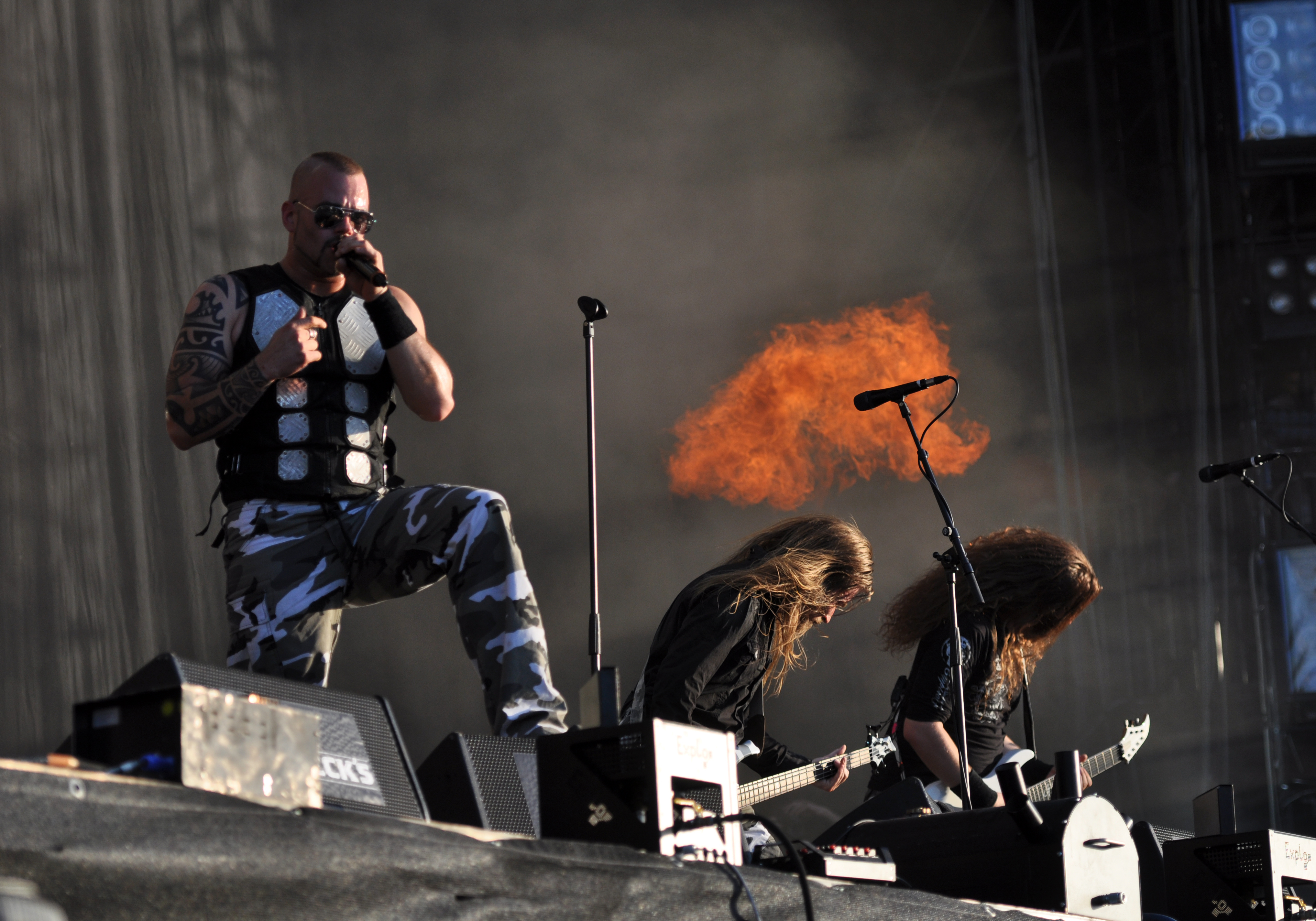 Sabaton at Wacken Open Air 2013